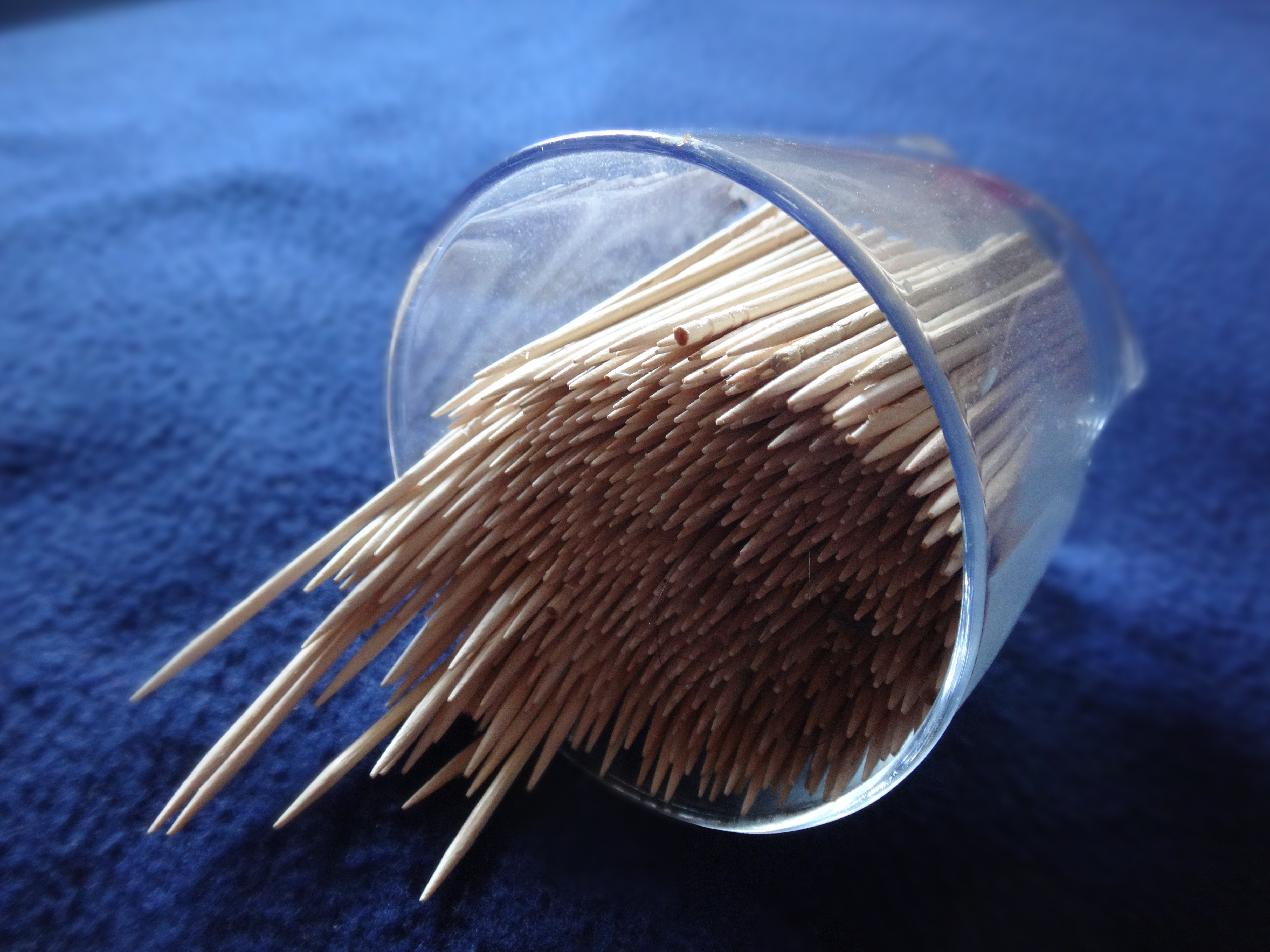 The image shows the toothpicks kept in a glass tumbler